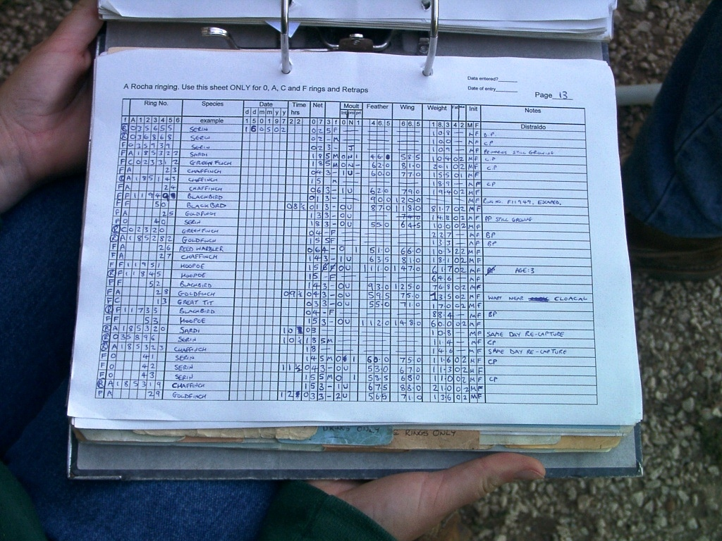 Bird ringing (bird banding) sequence, picture 10: Record sheet. All data is recorded on a record sheet and then inserted in a computer file, which is afterwards sent to the national bird ringing authority. Cruzinha, Portimão, Portugal.